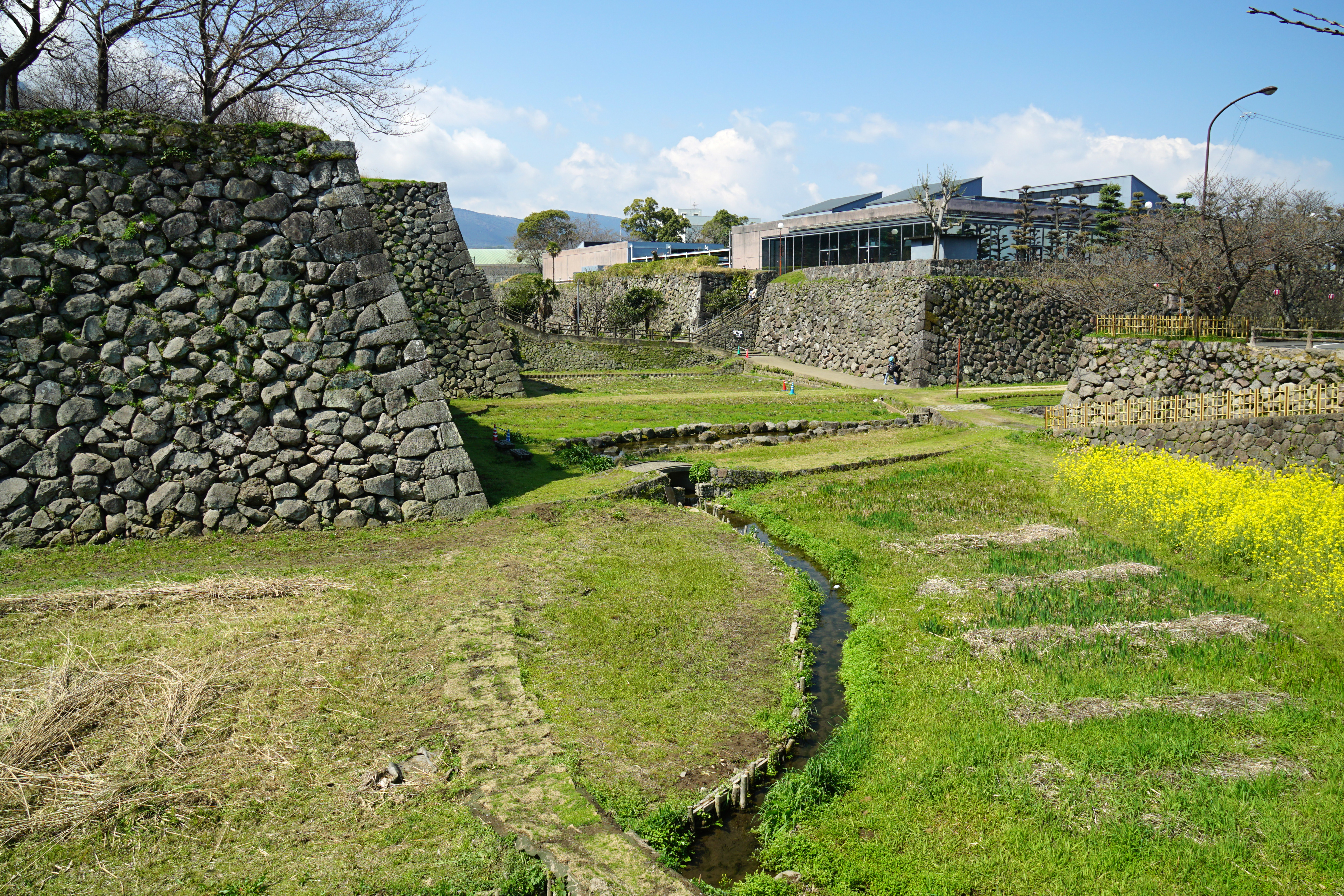 Shimabara Culture Hall on Shimabara Castle in Shimabara, Nagasaki prefecture, Japan.